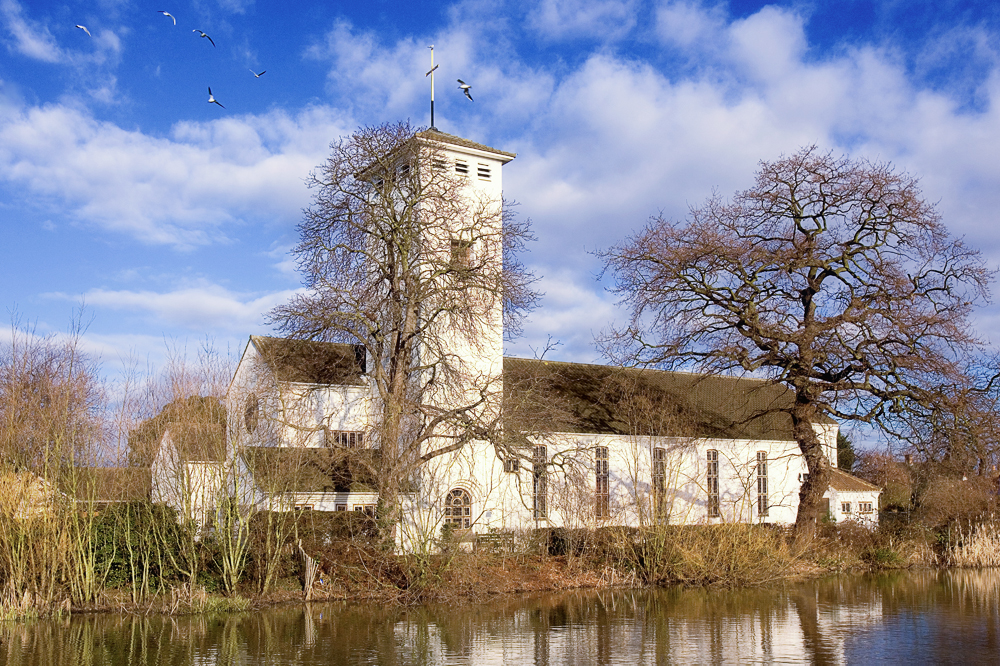 All Saints' parish church, Chestnut Avenue, Weston Green, Esher, Surrey, seen from the south across Marney's Pond. Building designed by Edward Maufe and completed in 1939.